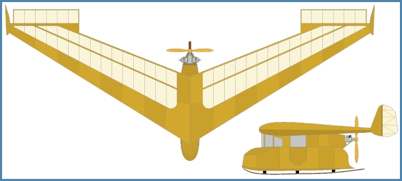 RRG Storch 7 Flying Wing